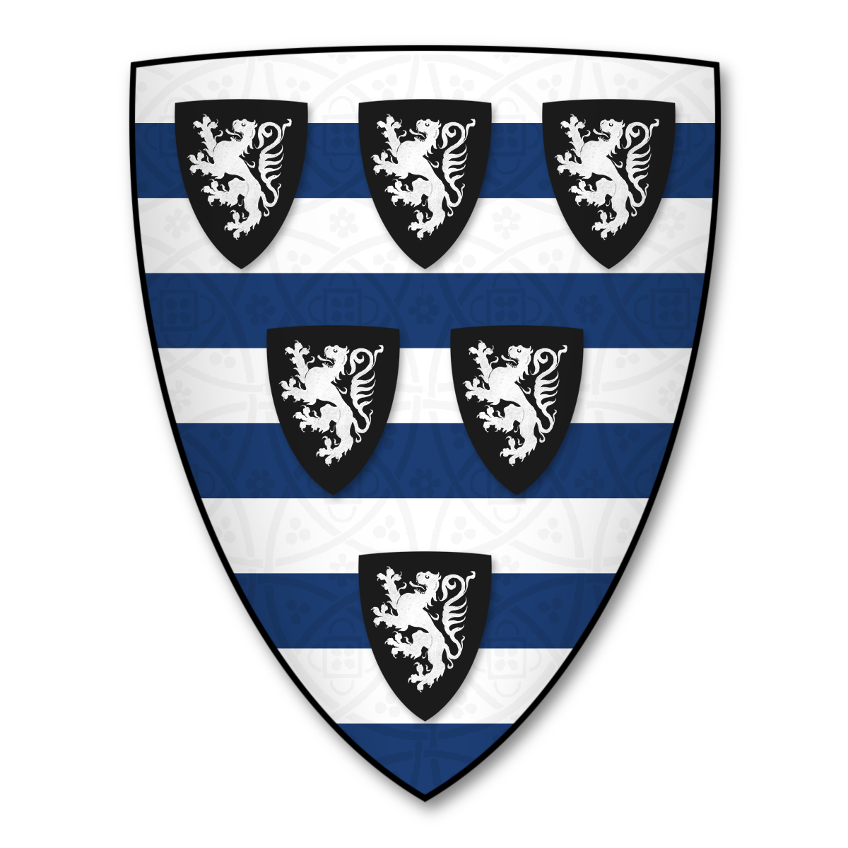 Armorial Bearings of the SITSYLT (Cecil) family of Alterynnis, Walterston, Herefordshire. In the year 1333 a great controversy arose between Sir John Sitsylt and Sir William Facknaham, each of whom claimed right to the arms hitherto borne by the Cecils. Arms: Barry of ten argent and azure, six eschutcheons sable, each charged with a lion rampant of the first, 3, 2, 1. Strong, George (1848) The Heraldry of Herefordshire: Being a Collection of the Armorial Bearings of Families Which Have Been Seated in the County at Various Periods Down to the Present Time., London: Churton Press